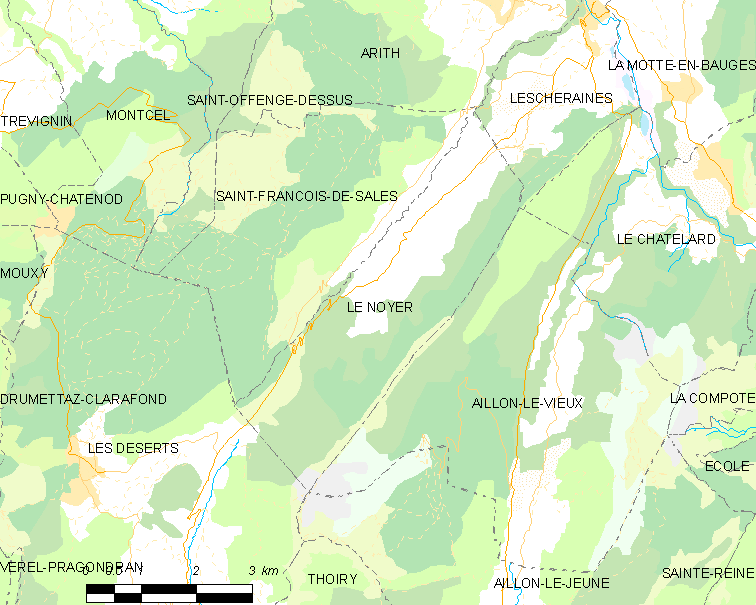 Map of French municipality